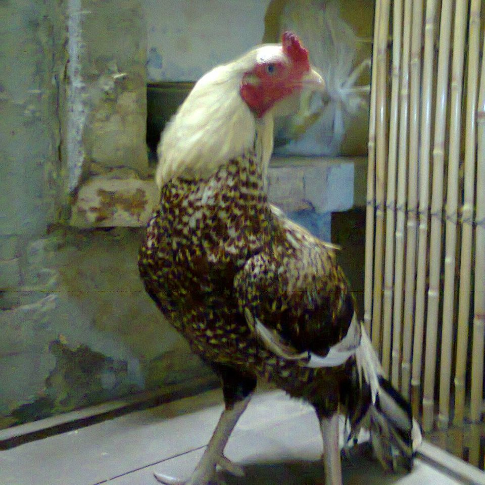 This is a sawa x pela aseel bird